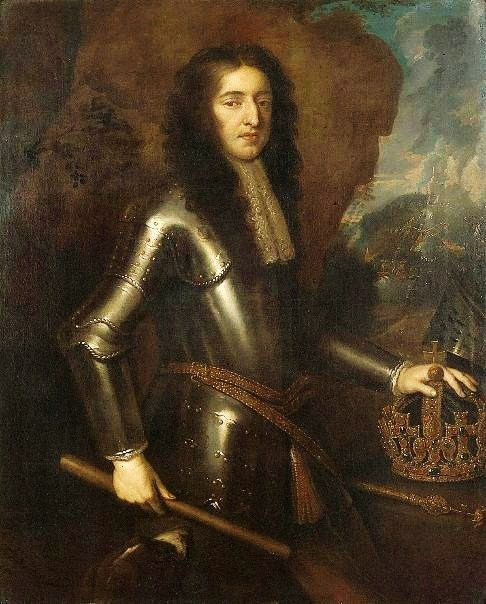 Pendant of File:W. Wissing Mary Stuart.jpg